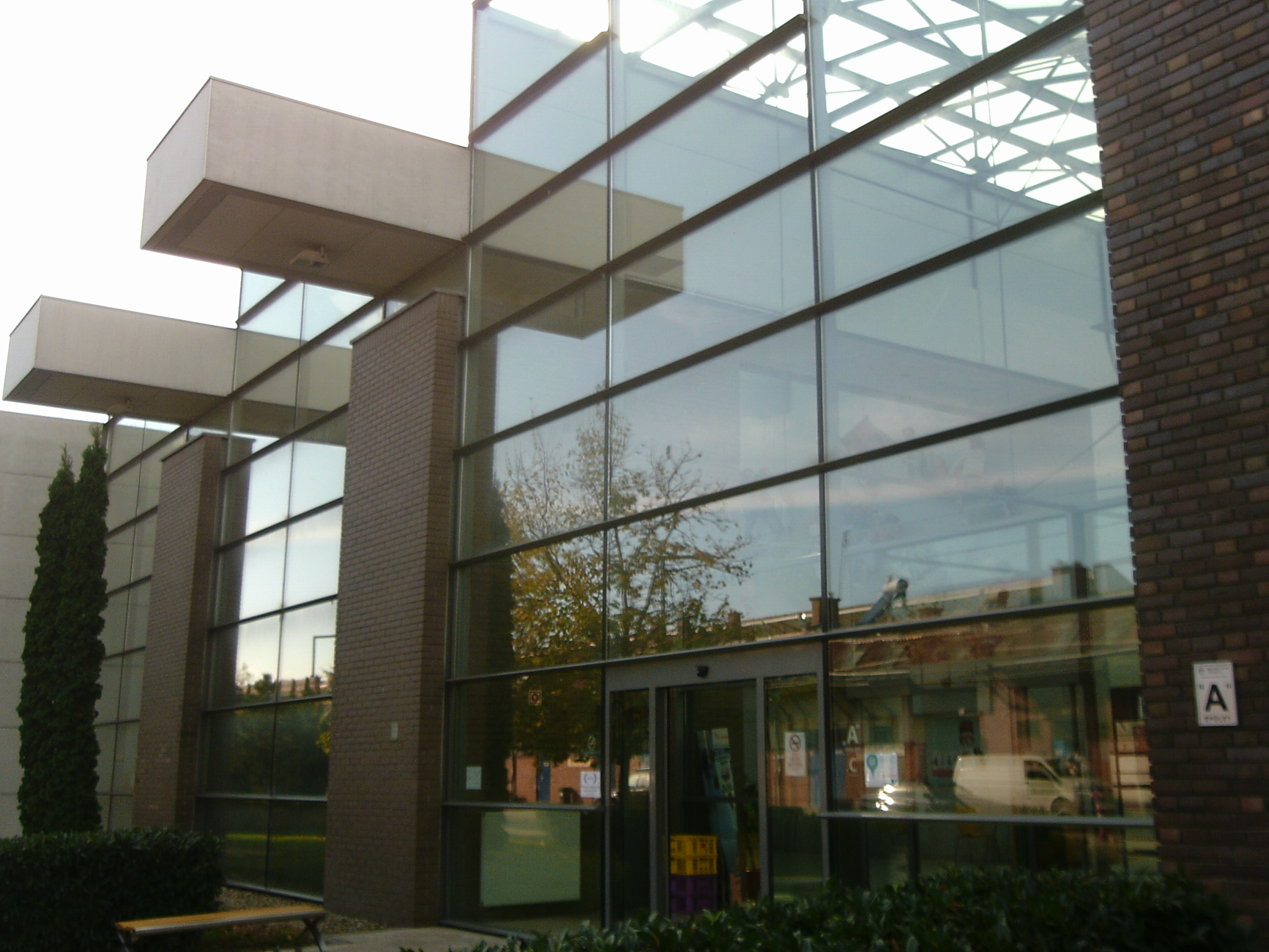 College of Dunaujvaros, Dunaujvaros, Hungary